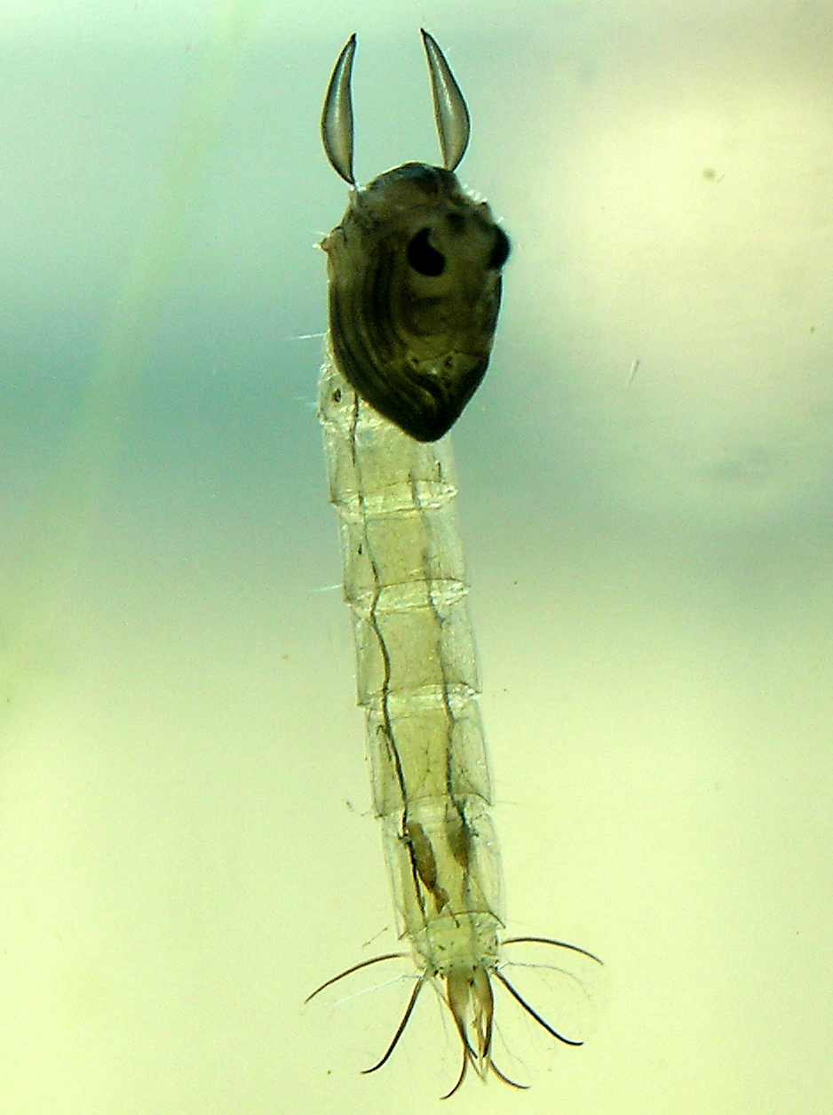 Chaoborus sp. pupa in the Netherlands